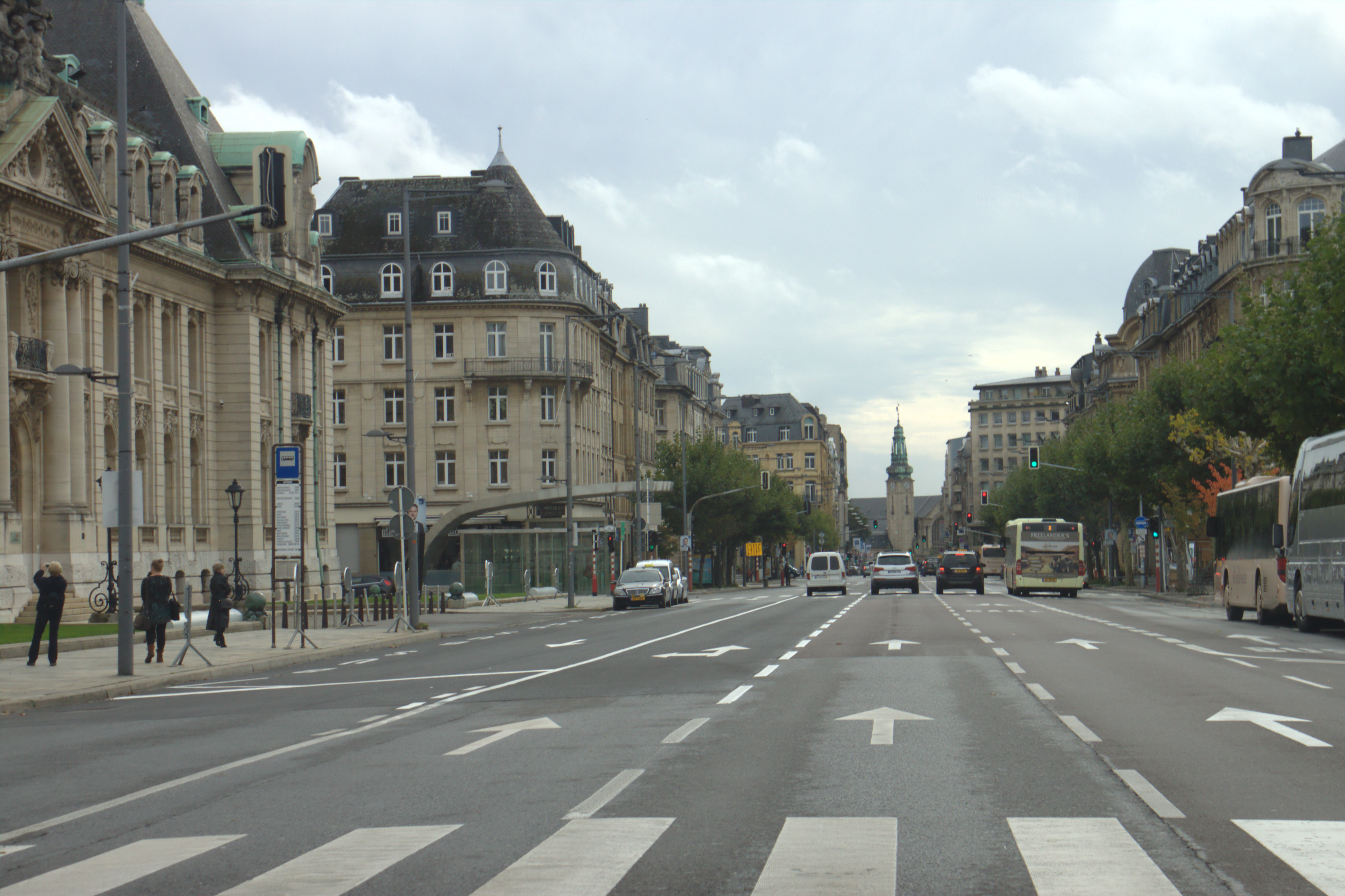 Avenue de la Liberté Boulevard in Luxembourg, Luxembourg